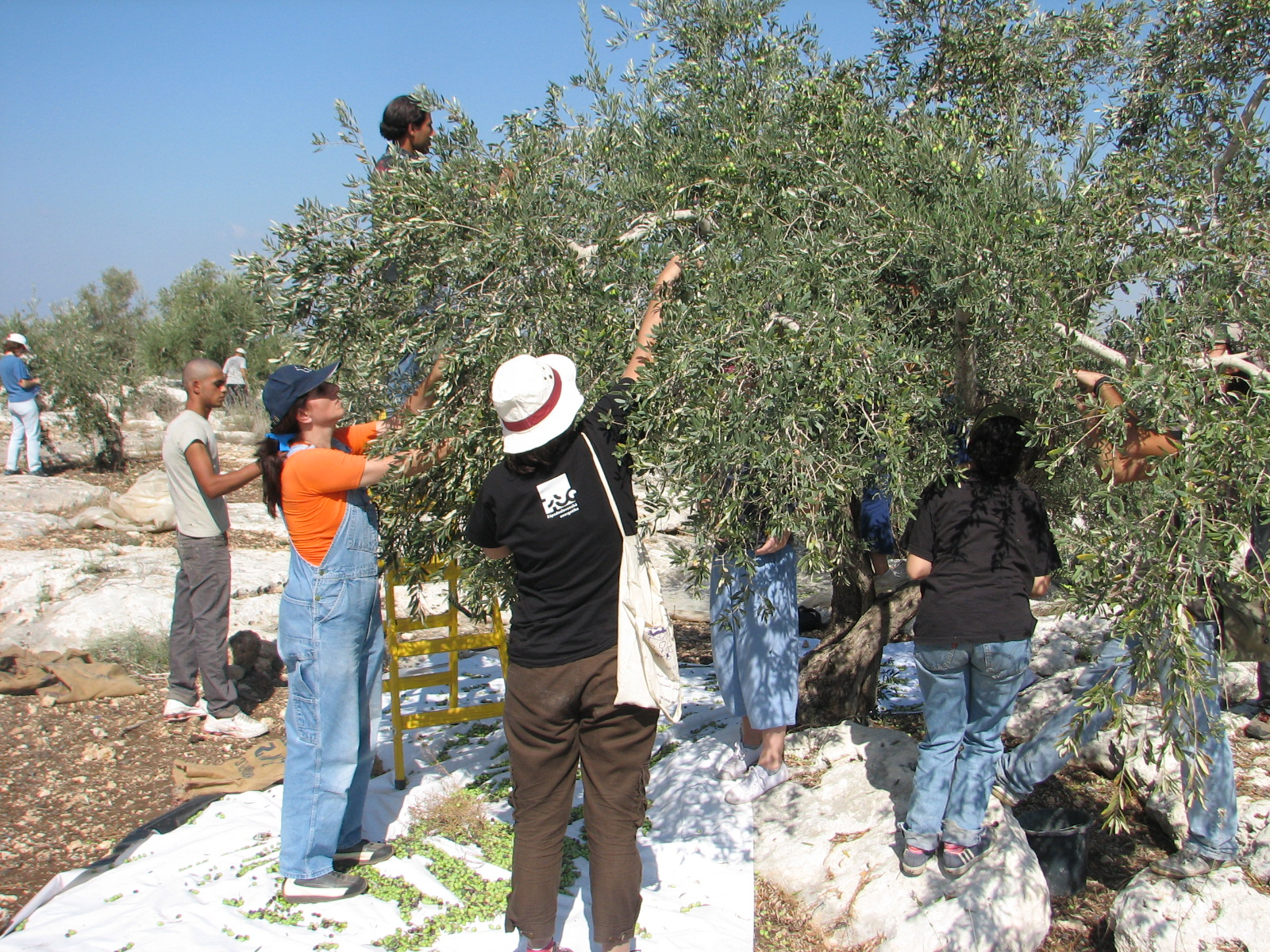 Israeli and palestinian olive harvesters in the village of Qafin, northern West Bank, Palestine